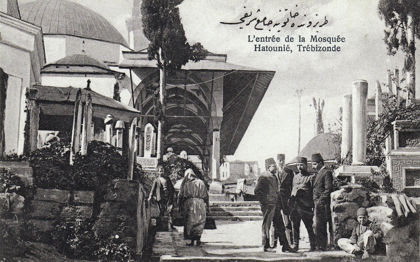 Postcard of Gulbahar Hatun Mosque in Trebizond (Trabzon, Turkey).